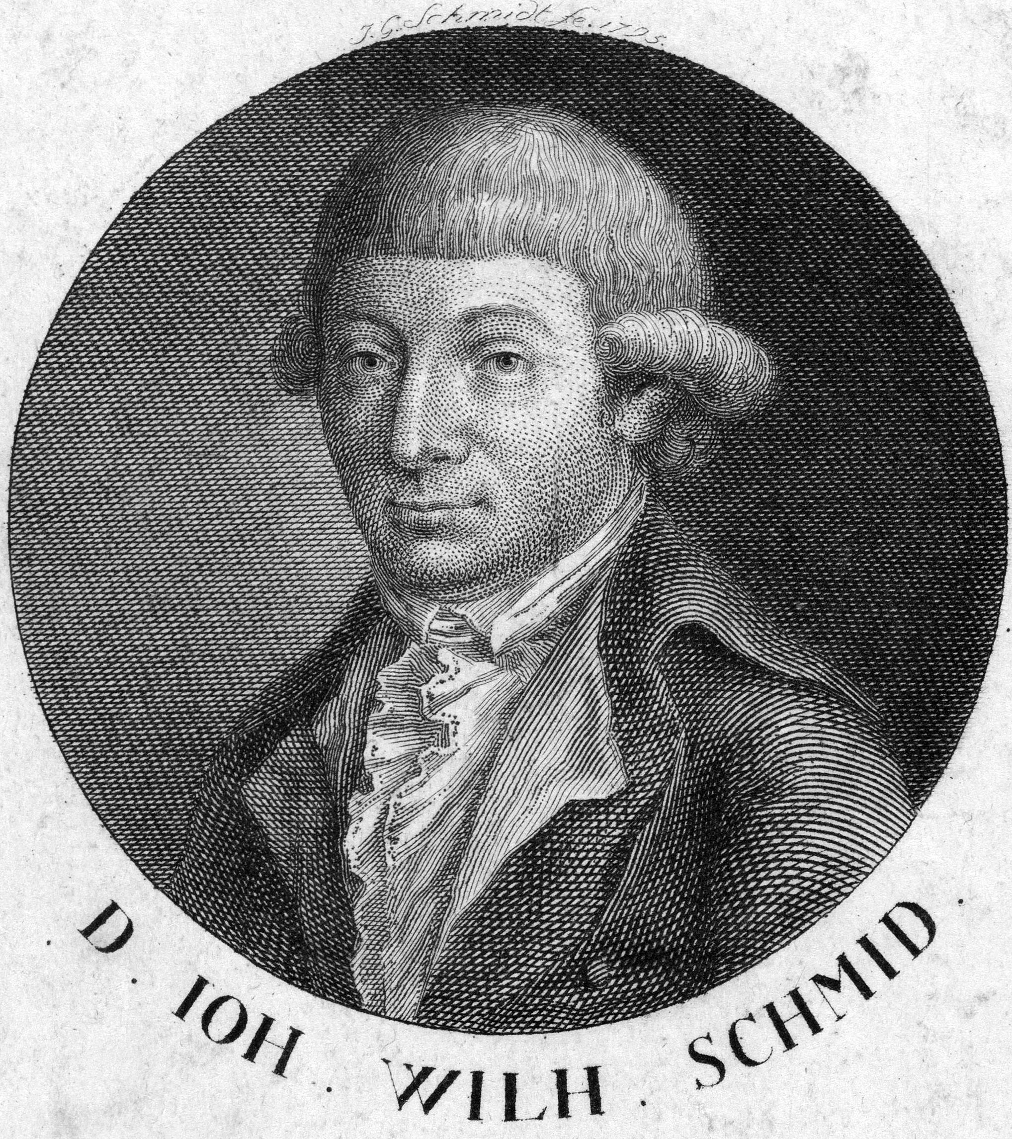 Johann Wilhelm Schmid (1744- 1798) German Protestant theologian